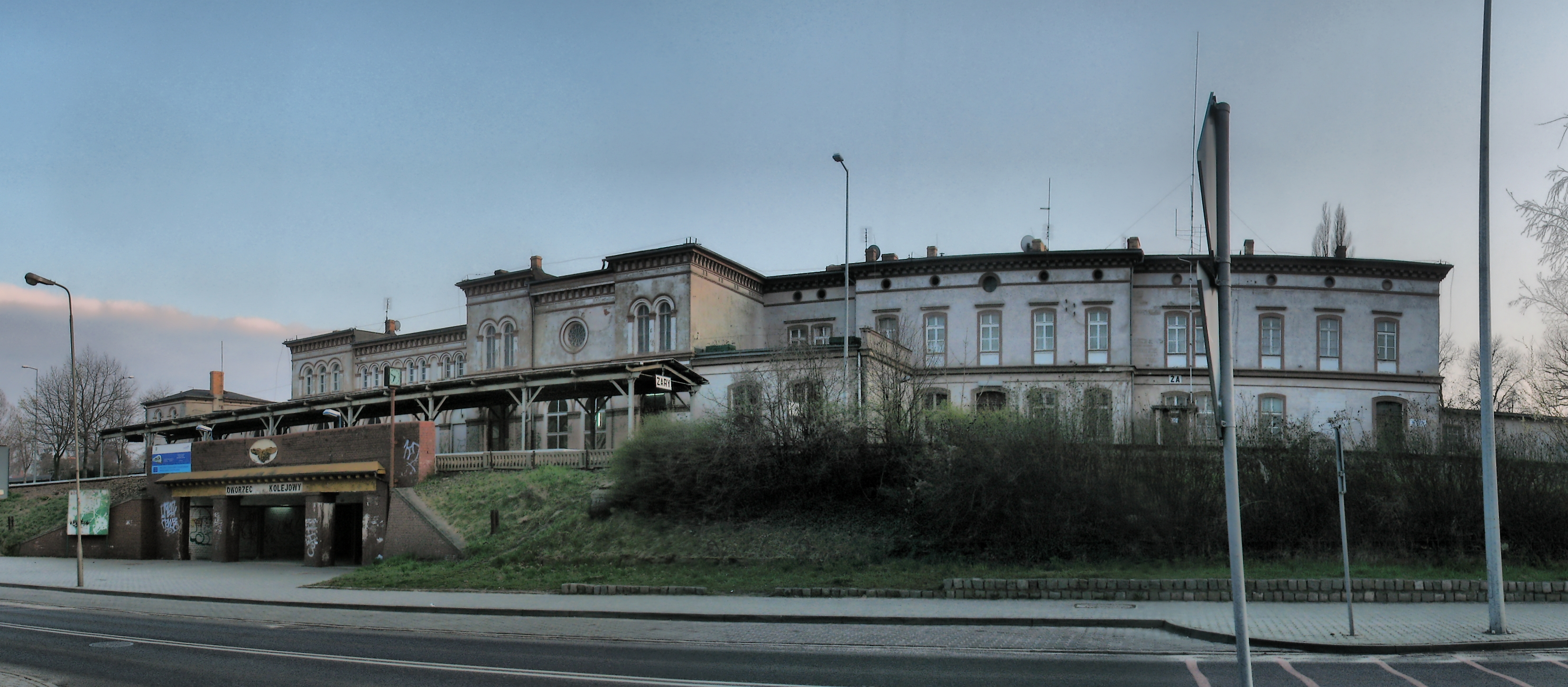 Train station in Żary